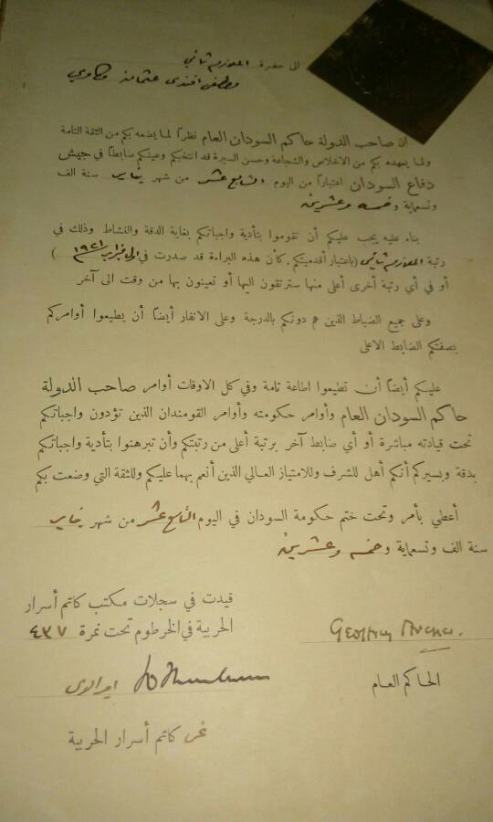 شهادات تعيين مصطفى أفندي بقوات دفاع السودان عربي 1